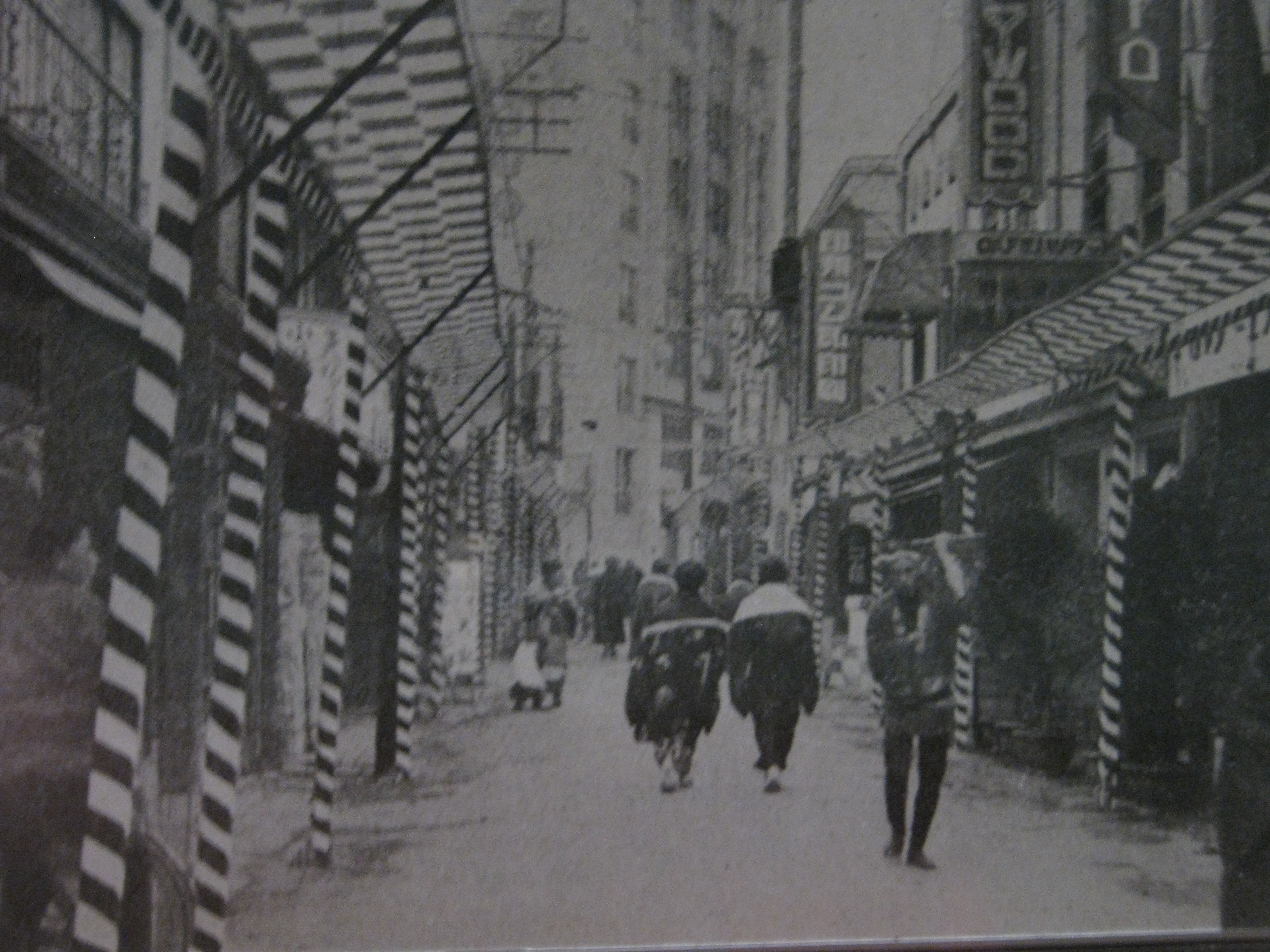 Golden Gai